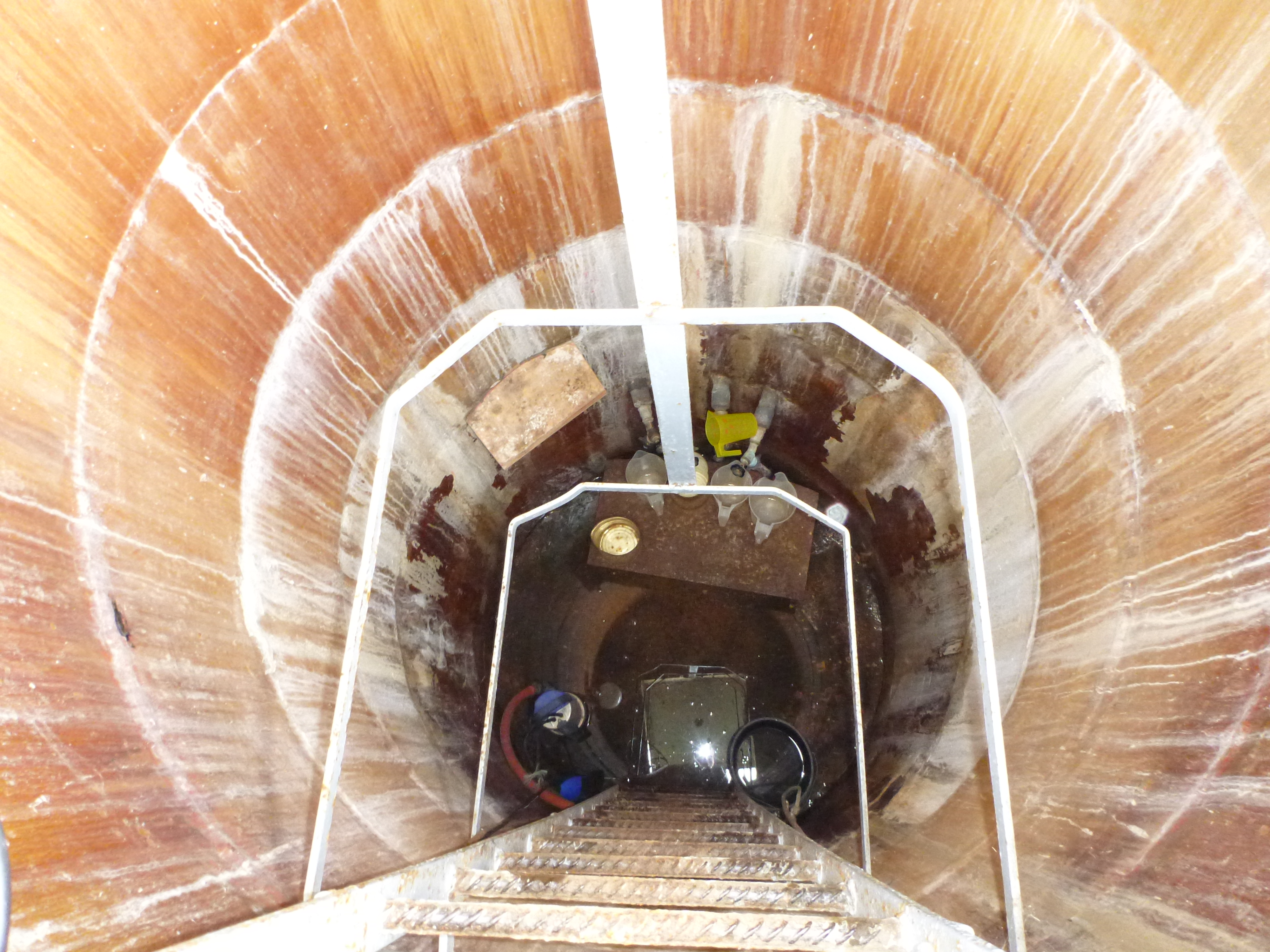 Viev into the Lysimeter, operated by the Staatlichen Amt für Umwelt und Natur Neubrandenburg